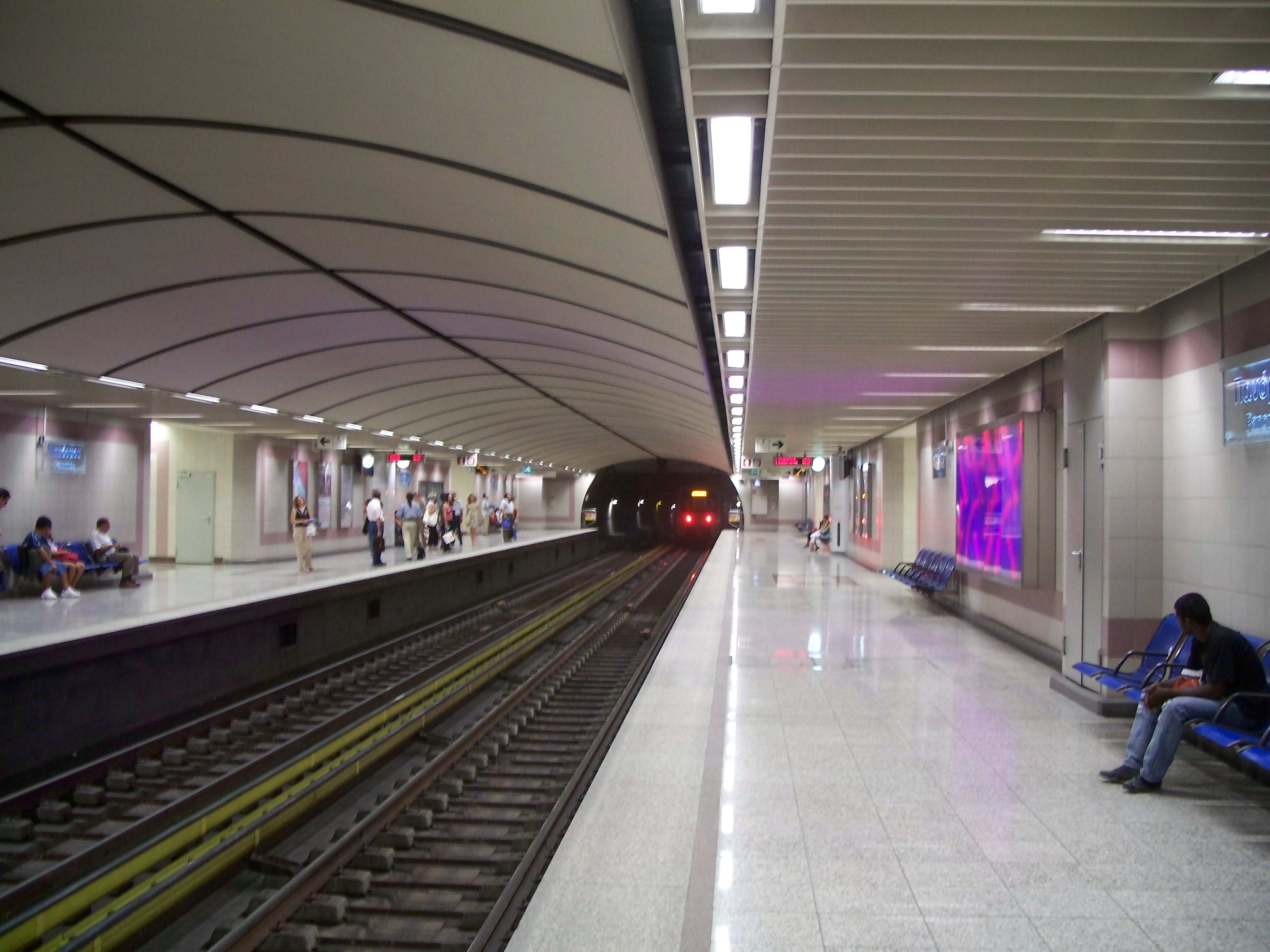 Panormou station of Athens Metro system.